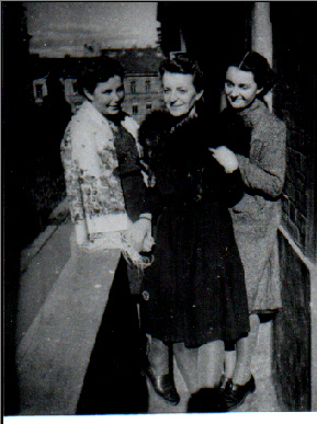 Zofia Krassowska